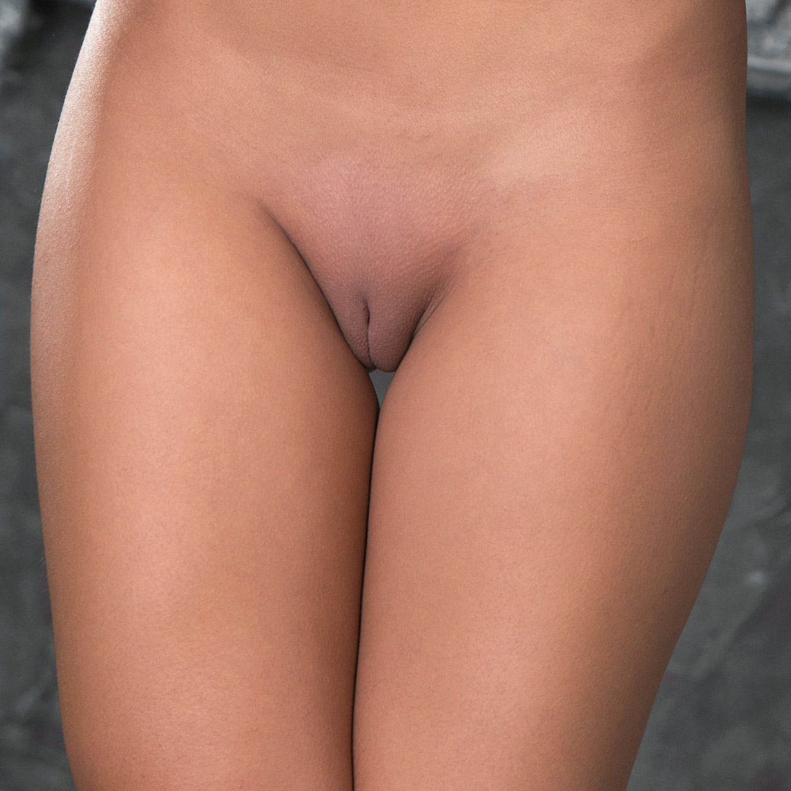 woman with pubic hair Full Brazilian Wax, Full Bikini Wax, Hollywood, Sphynx style.